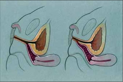 Urogenital sinus anatomy: vagina and urethra join and exit as common channel. High confluence (left), low confluence (right)